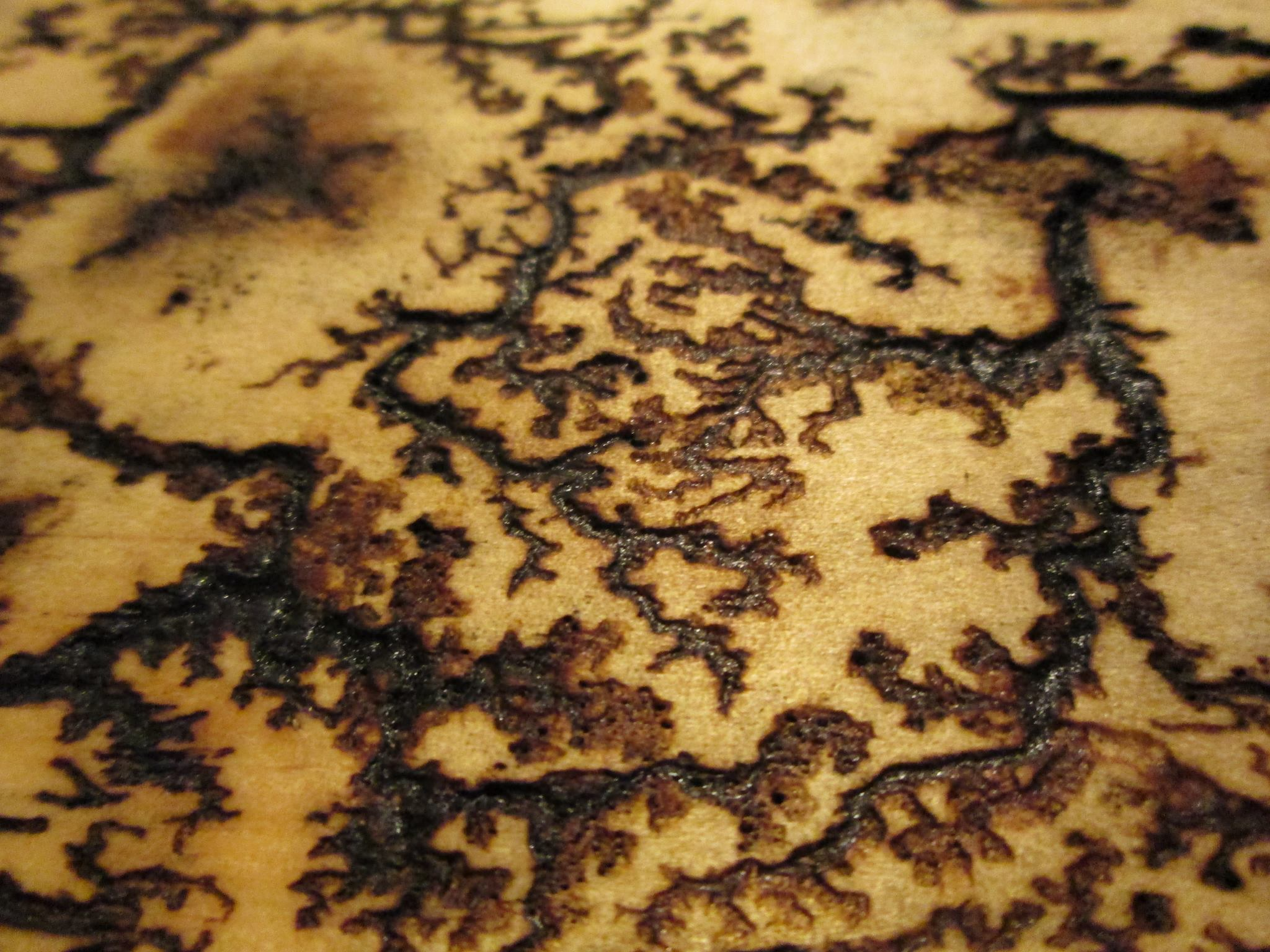 A Lichtenberg figure in radiata pine timber, made artificially with a resonant Microwave oven transformer (about 2.4kV AC).